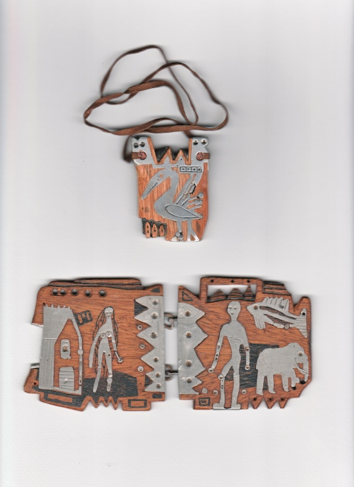 Photography of unique artwork (pewter on mahogny) by the Norwegian artist Carl Frithjof Tidemand-Johannessens. Owned by his son and copyright owner Kjeld Tidemand.